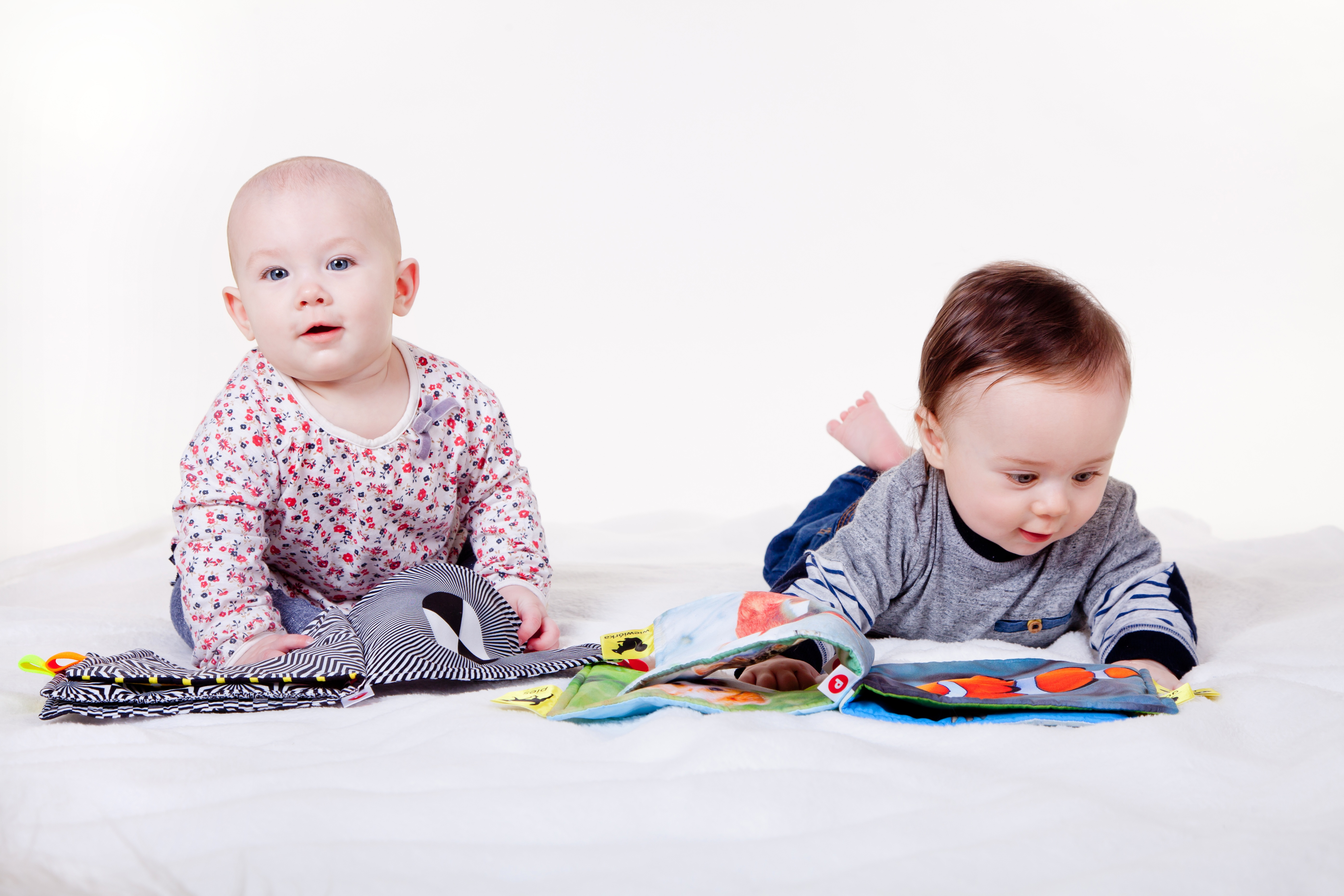 Two babies look at soft books.